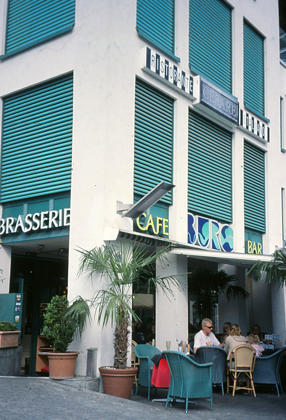 The Café Burg in the center of Vaduz, Liechtenstein. July 3, 2004